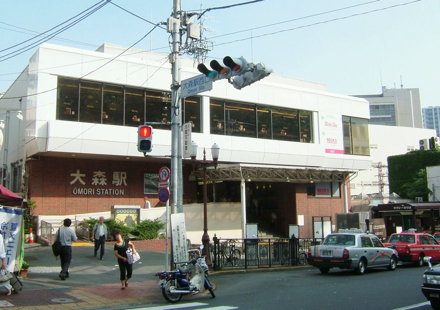 West Exit of JR East Ōmori Station